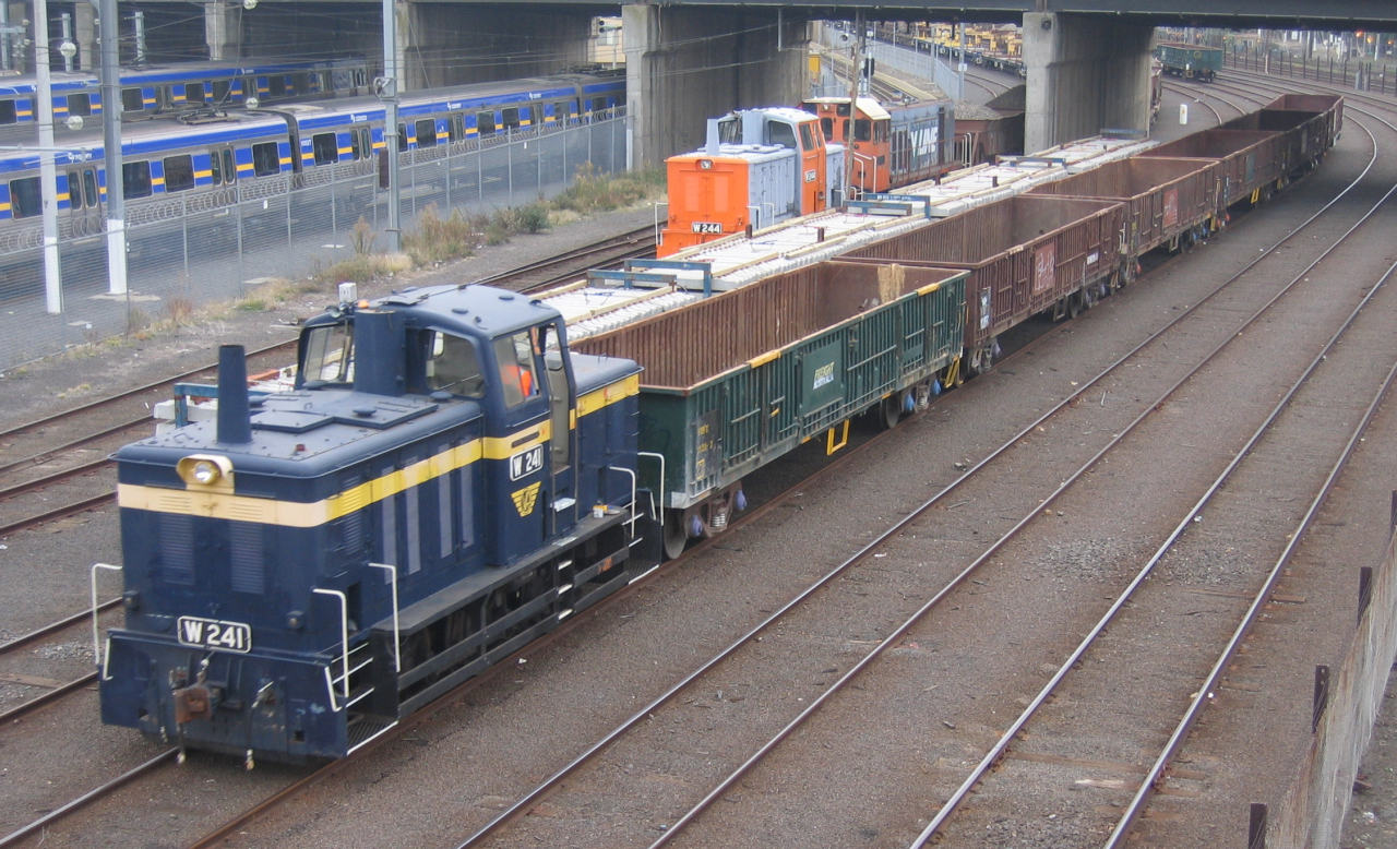 El Zorro locomotives W241, W244 and Y168 on a works train in Melbourne, Victoria, Australia, 2006.